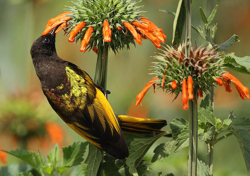 Golden-winged Sunbird (Drepanorhynchus reichenowi). A breeding-plumage male in central Kenya feeding on Leonotis nepetifolia flower nectar.